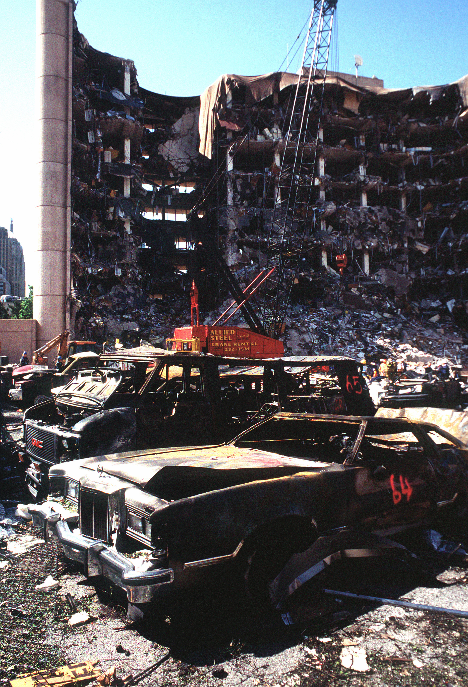 The bombed remains of automobiles with the bombed Federal Building in the background. The military is providing around the clock support since a car bomb exploded inside the building on Wednesday, April 19, 1995.